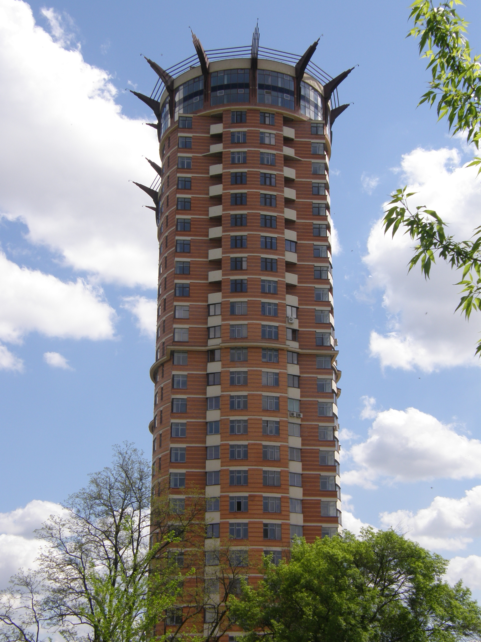 King's Tower in Donetsk